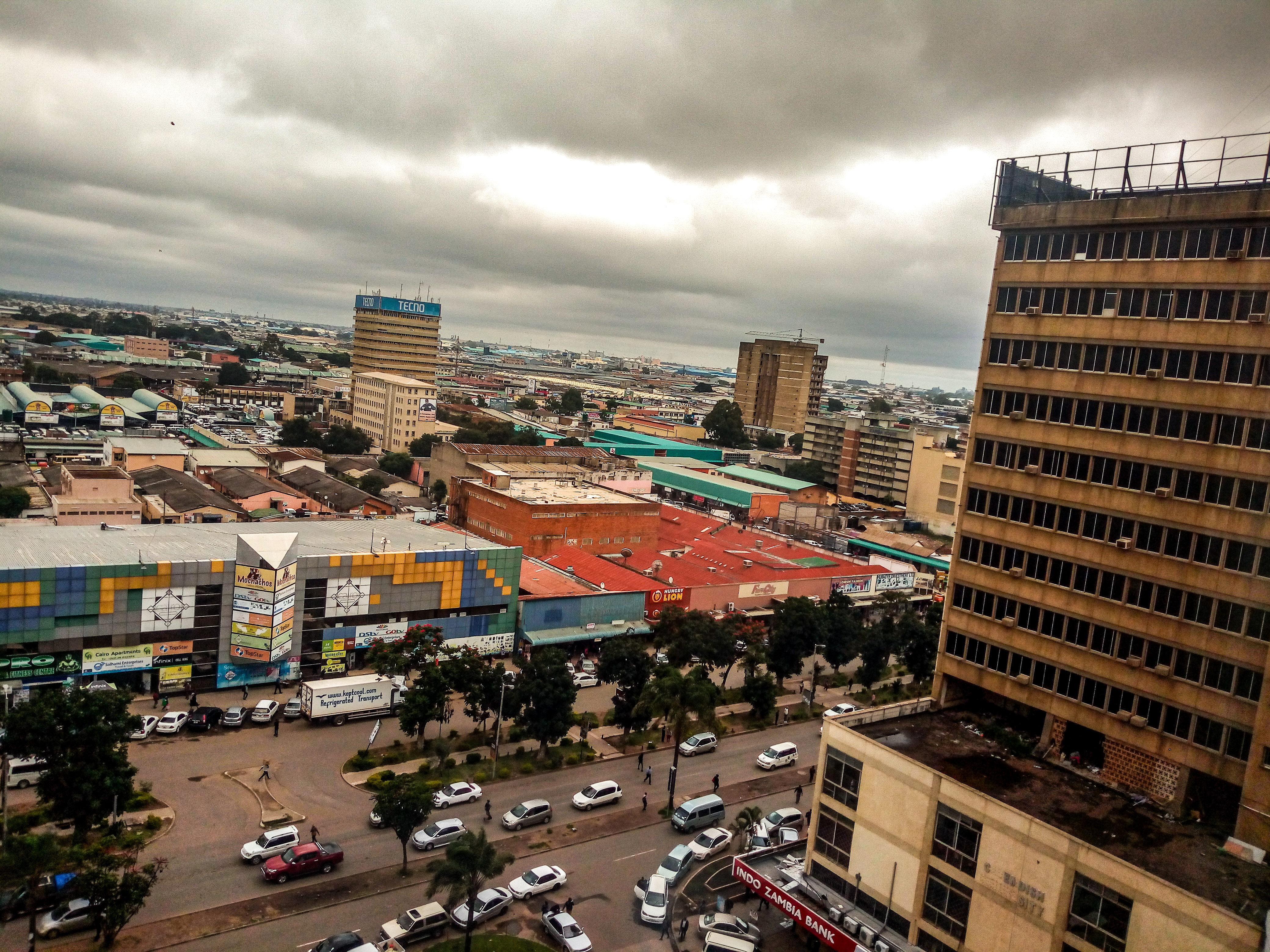 Lusaka City View of Cairo Road from Zanaco Main Branch Building This is an image with the theme "Africa on the Move or Transport" from: Zambia